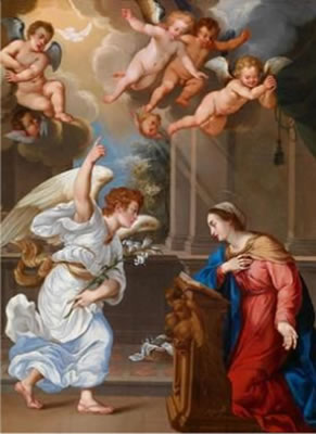 The Annunciation